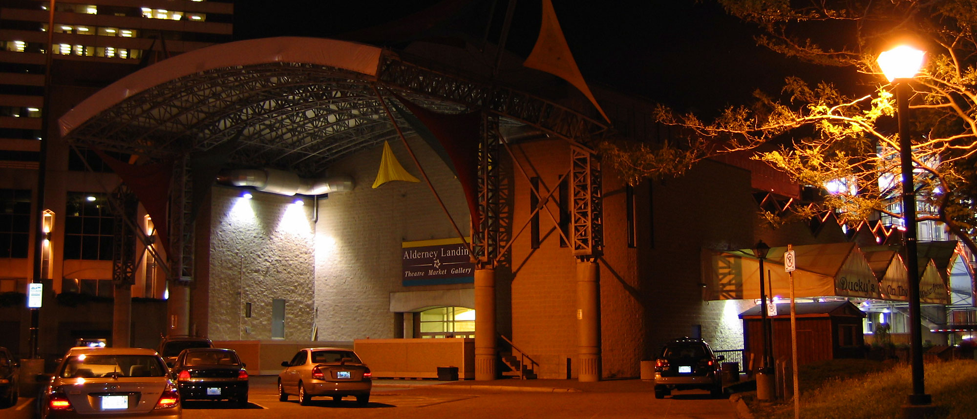 Alderney Landing theatre, Dartmouth, Nova Scotia